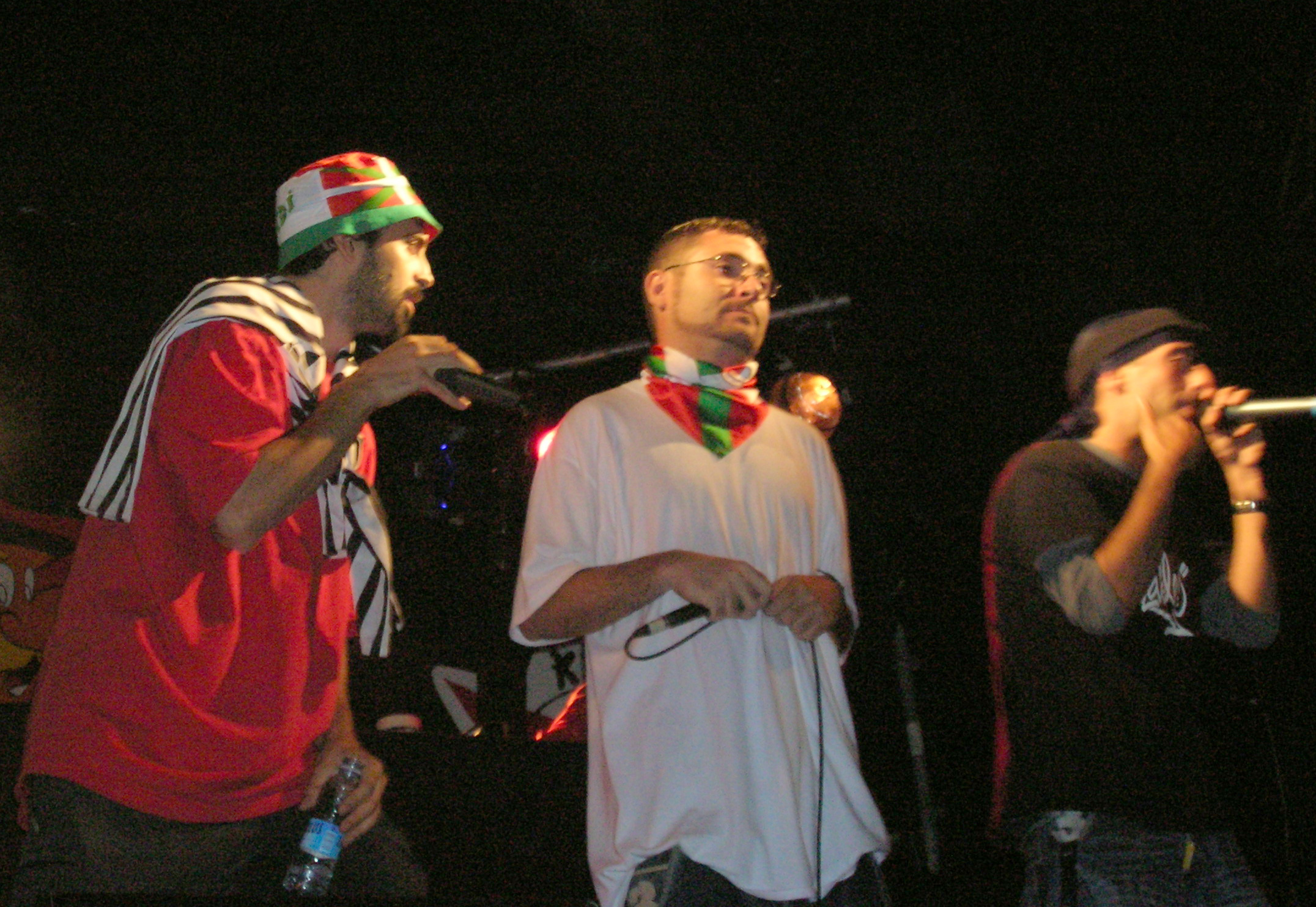 Spanish hip hop crew Geronación acting live in Bilbao, August 22, 2005, during Aste Nagusia. By Javier Mediavilla Ezquibela.